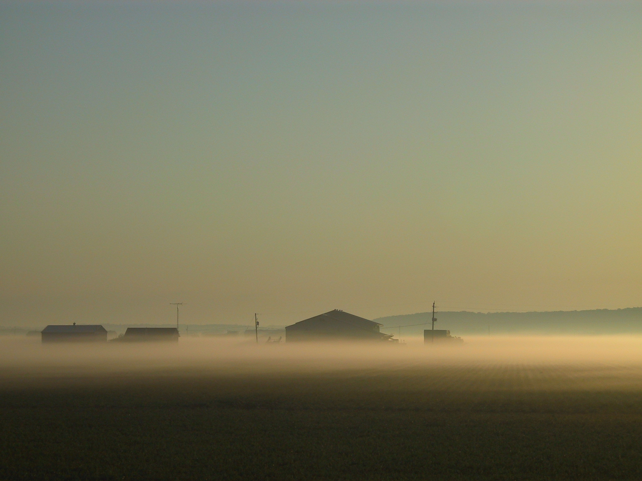 I, Alex Vye, took this photo in my hometown in Bradford, September of 2002. I am putting it here in the commons for people to freely use.